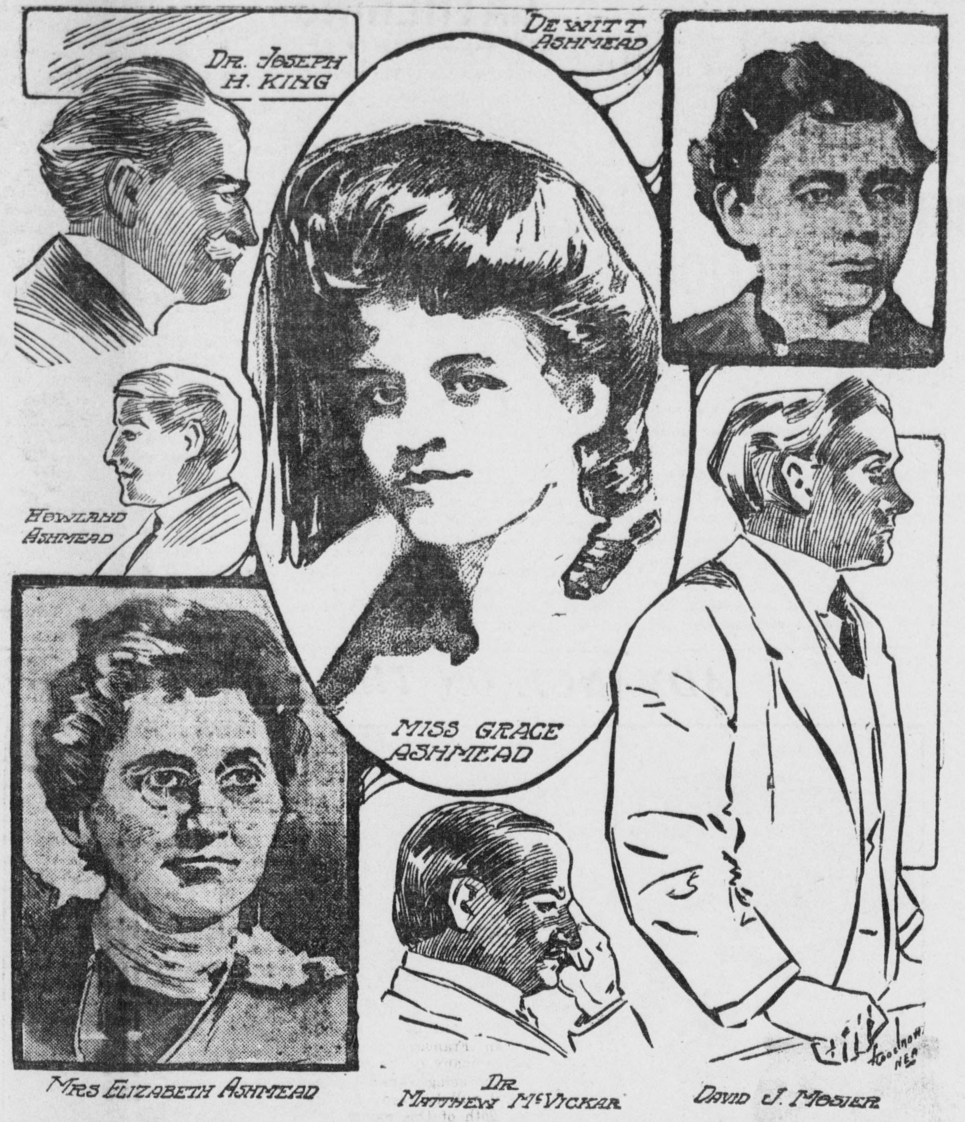 in 1904, Elizabeth Ashmead of Philadelphia was arrested, along with several of her associates, and charged with running a "baby farm" (which may or may not have involved selling babies for adoption), and multiple counts of malpractice which involved killing women via botched abortions.